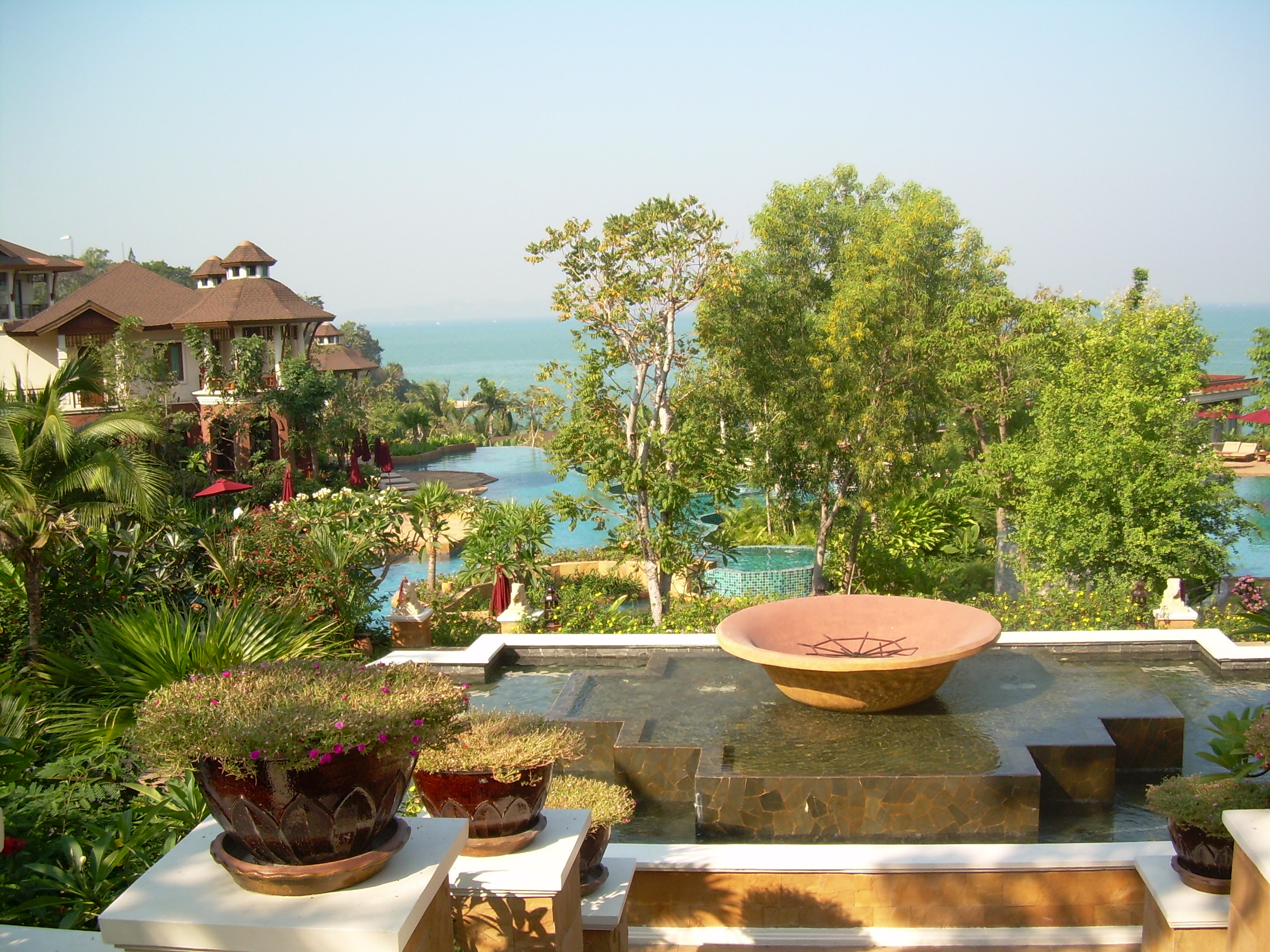 Pattaya, Sheraton Hotel